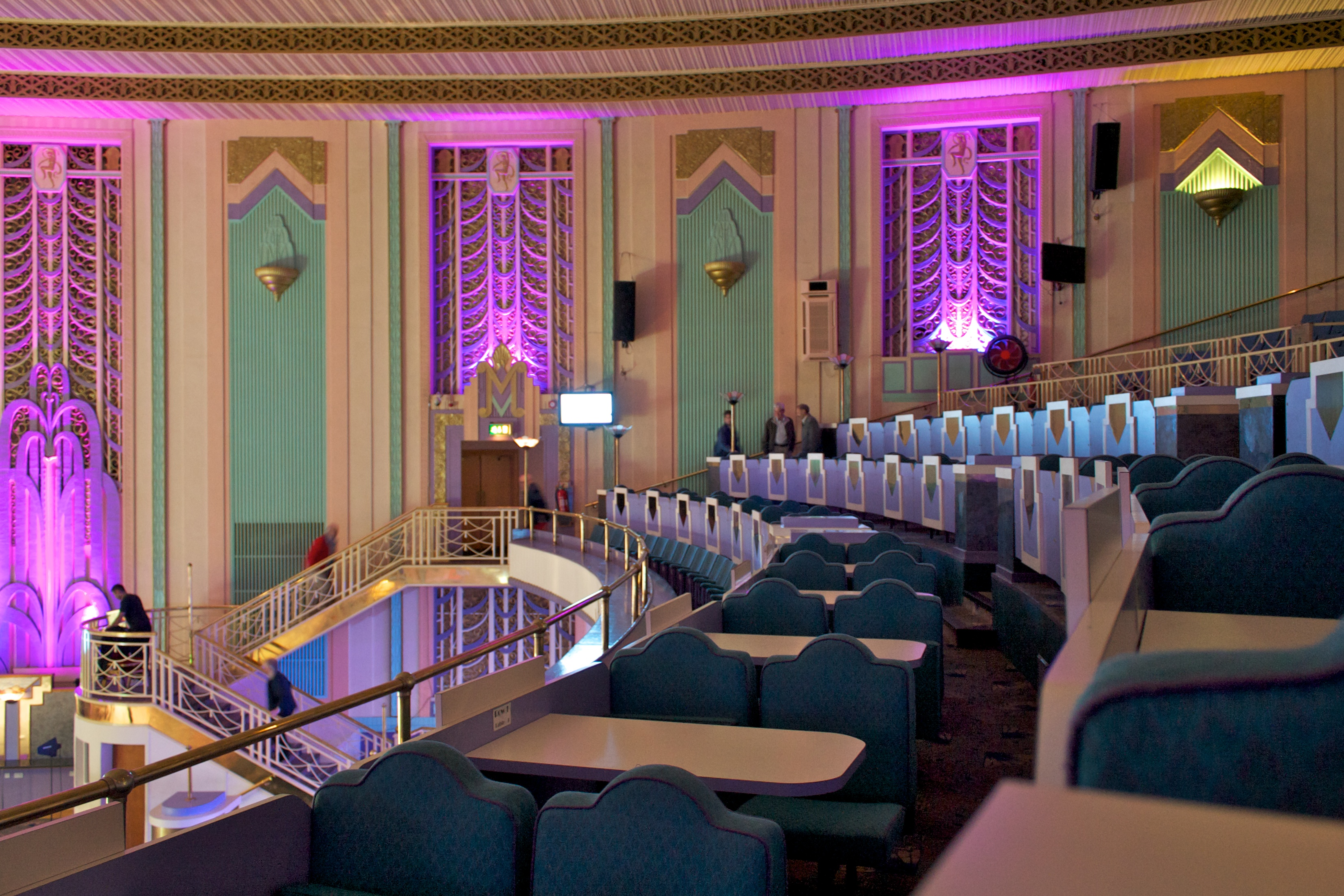 The Troxy is a Grade II listed art-deco venue in the East End of London. They had an open day on the occasion of restoring and installing a Wurlitzer theatre pipe organ.